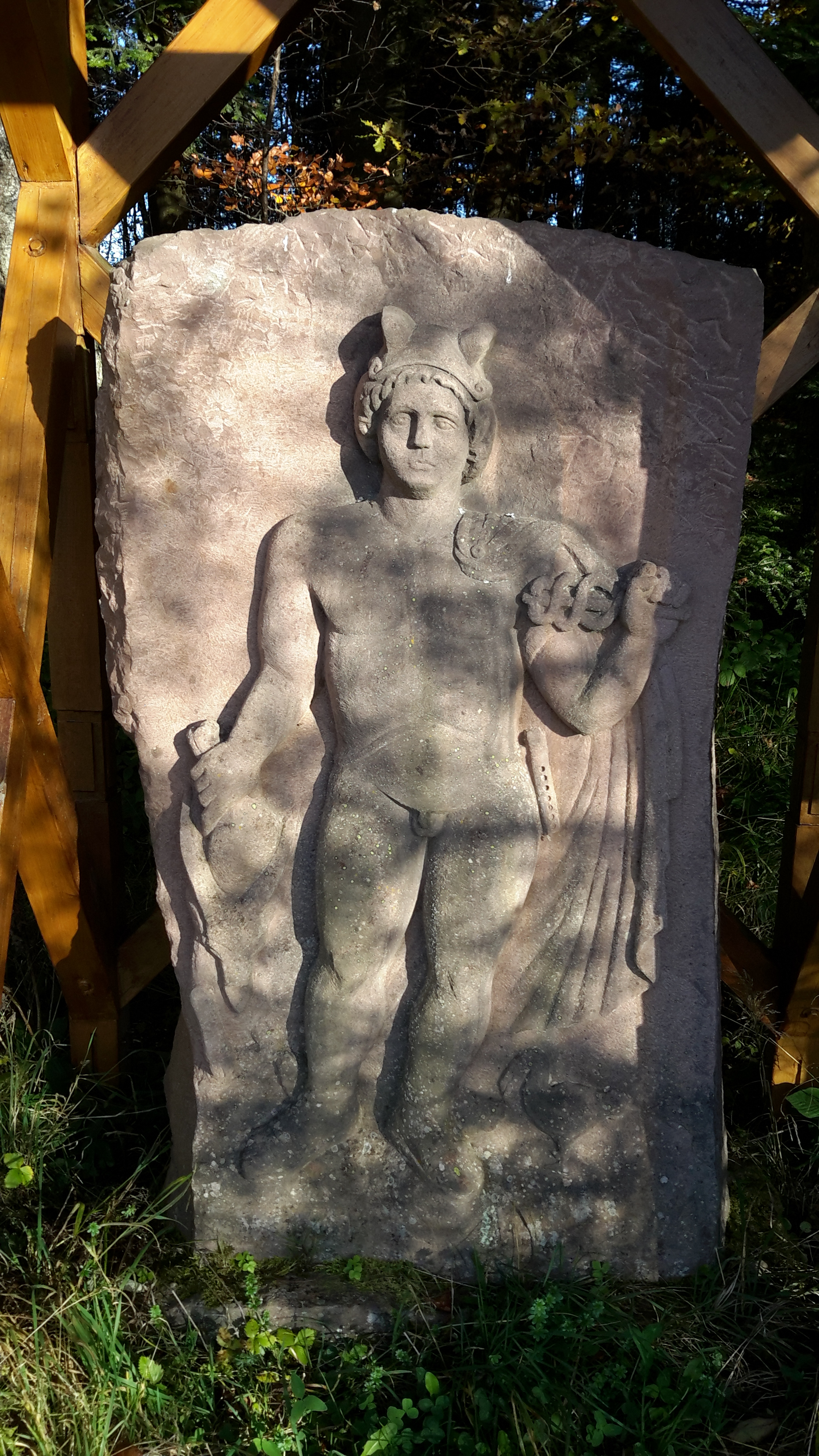 Kopie Merkurrelief Brandsteig